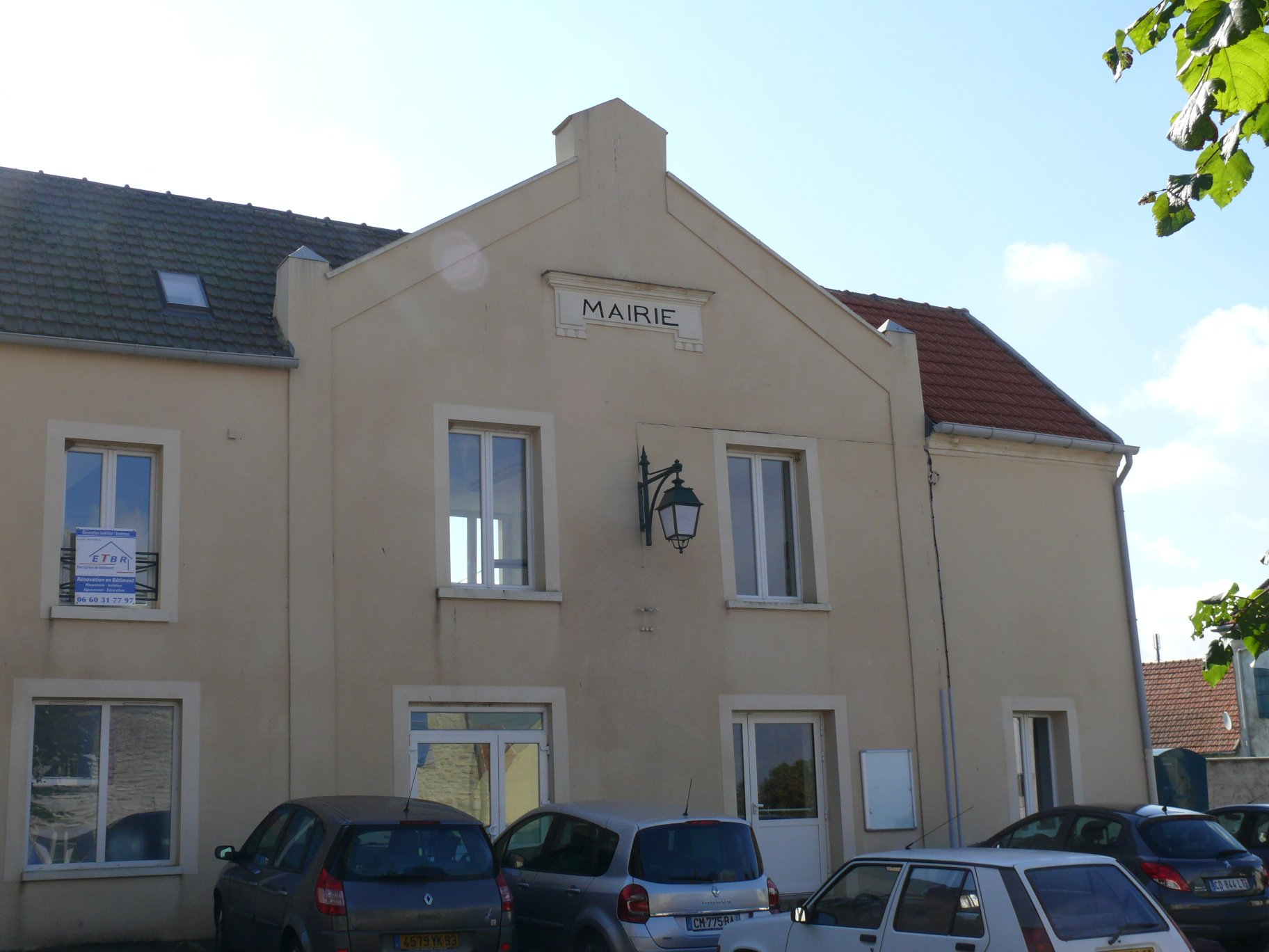 The city hall of Oissery (Seine-et-Marne, Île-de-France, France).